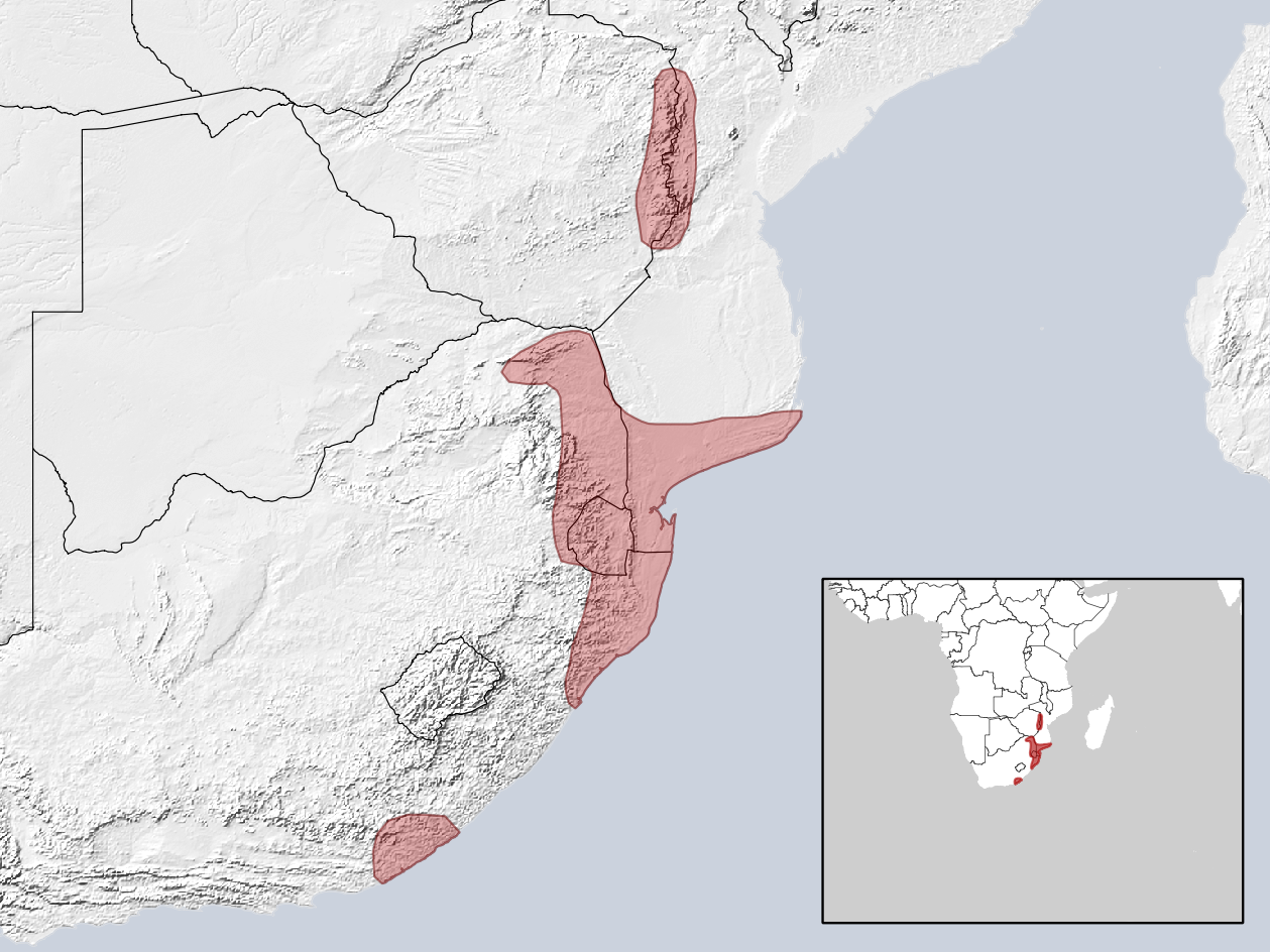 geographic distribution of Acontias plumbeus, with national borders added